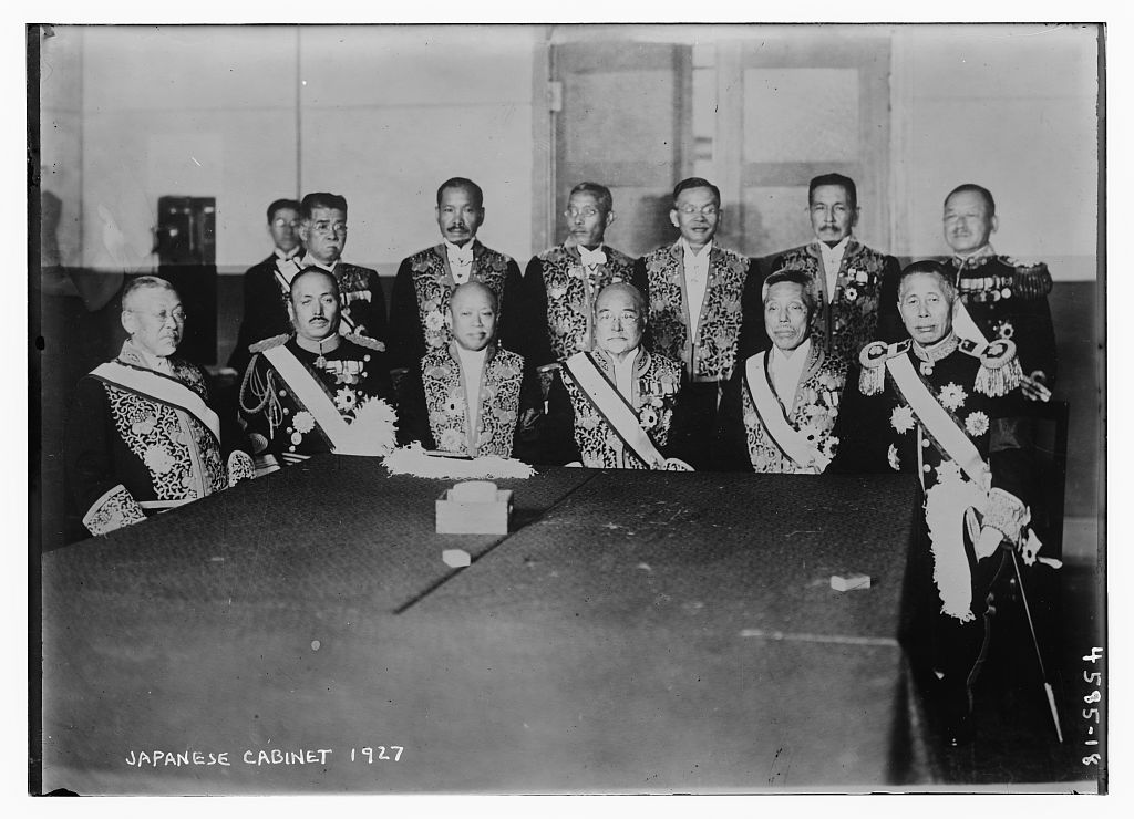 Bain News Service,, publisher.Prime Minister Baron Tanaka Giichi 田中義一(1863-1929), seated far right, and his successor Osachi Hamaguchi 浜口雄幸(1870-1931), standing 4th from right. (Source: Flickr Commons, May 2016) Japanese cabinet, 1927 1915 (date created or published later by Bain) 1 negative : glass ; 5 x 7 in. or smaller. Notes: Title and date from unverified data provided by the Bain News Service on the negative. Forms part of: George Grantham Bain Collection (Library of Congress). Format: Glass negatives. Repository: Library of Congress, Prints and Photographs Division, Washington, D.C. 20540 USA, General information about the Bain Collection is available at Higher resolution image is available (Persistent URL): Call Number: LC-B2- 4577-18